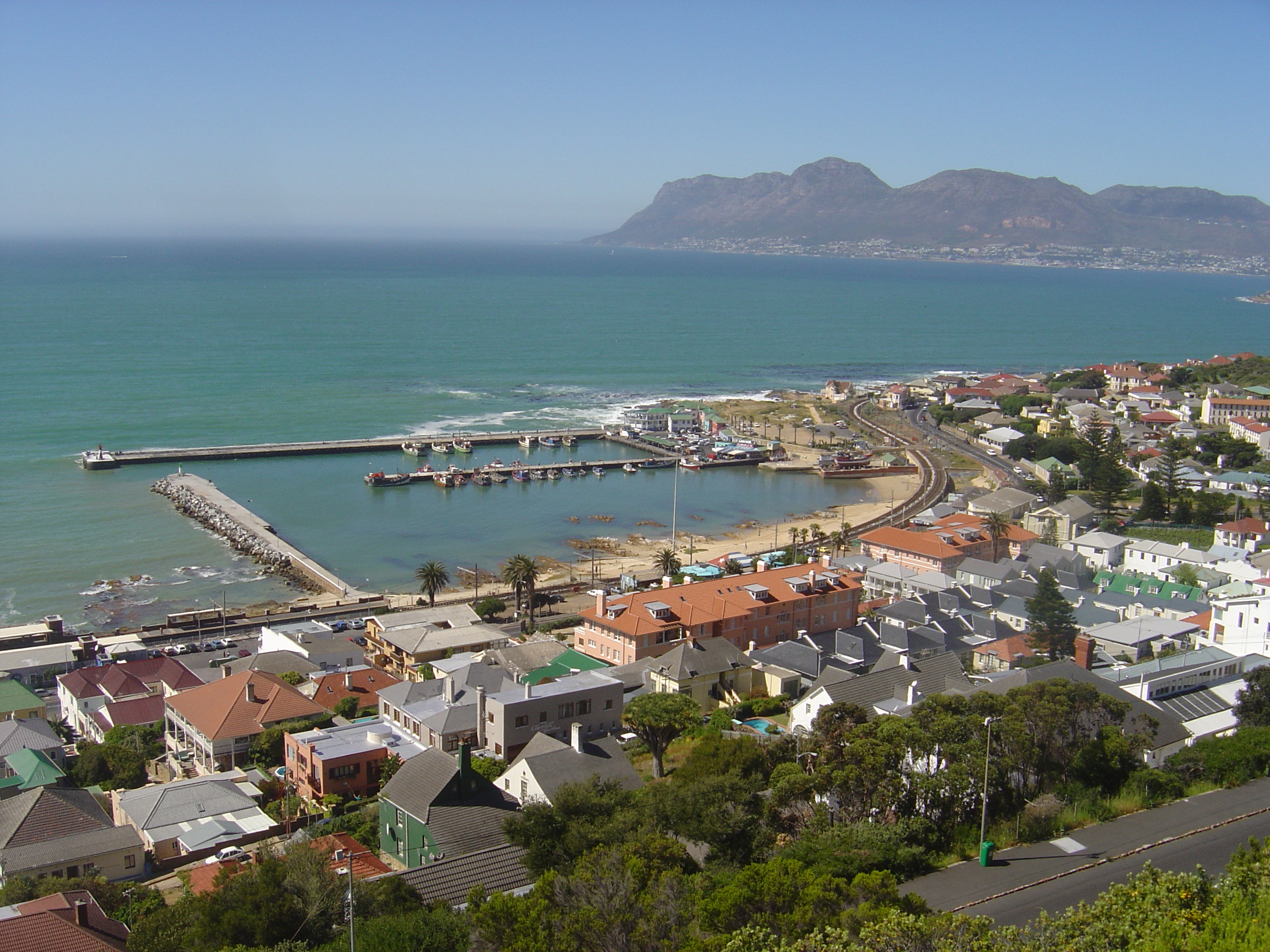 Kalk Bay harbour and town in Cape Town, South Africa